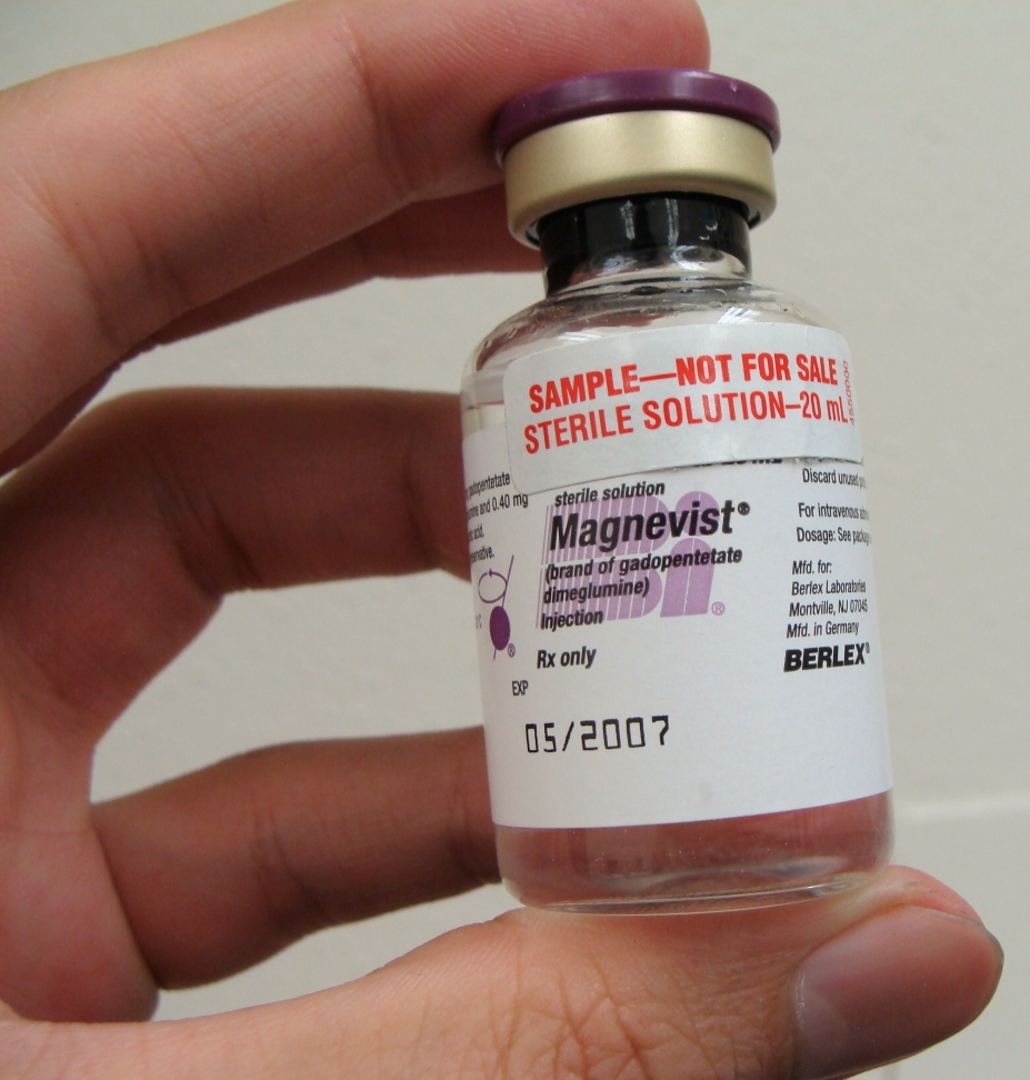 A bottle of Magnevist contrast agent, from my own office. I use it to test phantoms.